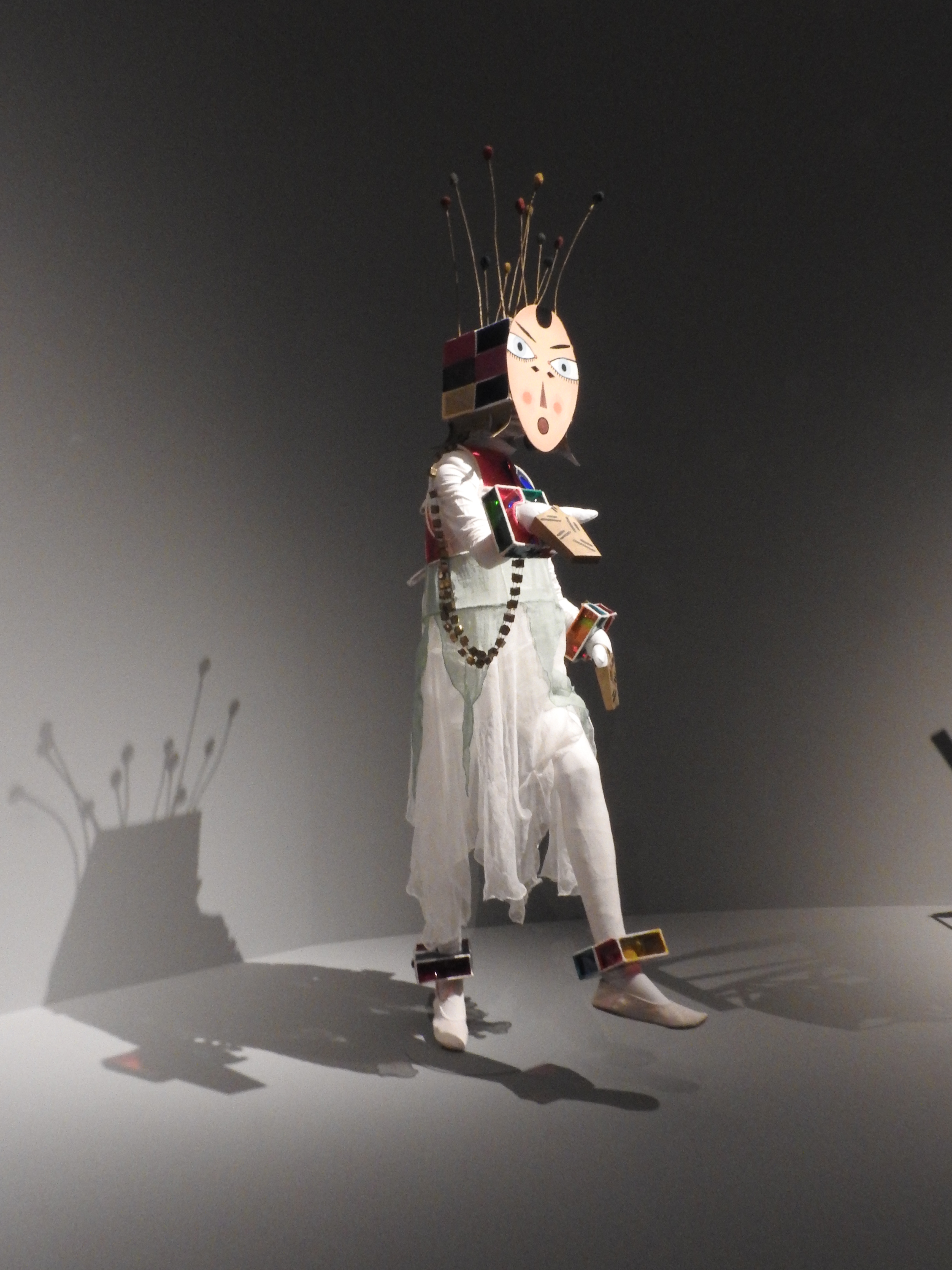 expressionist artist Lavinia Schulz (1896-1924); full body suit; picture taken at the "Sturm-Frauen" exhibition in the Kunsthalle Schirn, Frankfurt